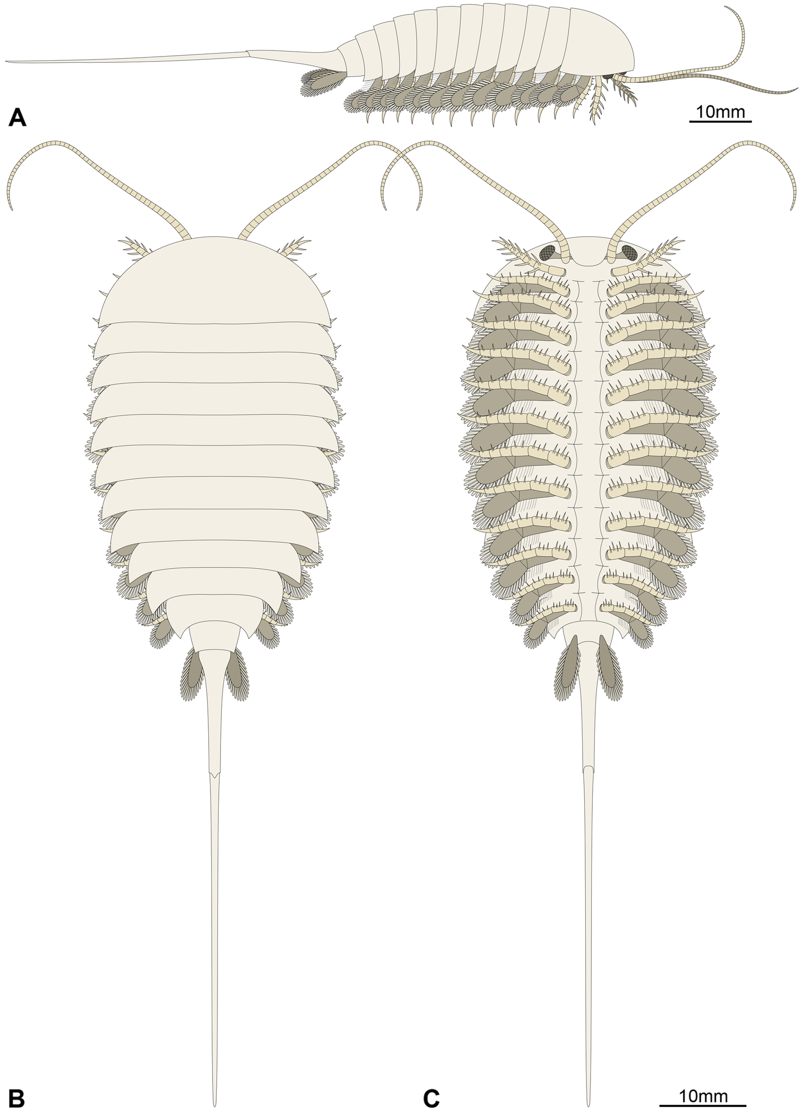 Morphological reconstruction of Emeraldella brutoni (A) Lateral view. (B) Dorsal view. (C) Ventral view. The morphology of the hypostome, sternites, tripartite exopod organization, and all but the first set of endopods are tentatively extrapolated from the better-known Emeraldella brocki from the Burgess Shale (see Stein & Selden, 2012). The presence of simple rather than tripartite endopod tips is generalized from the morphology of the well-preserved first post-antennal appendages.